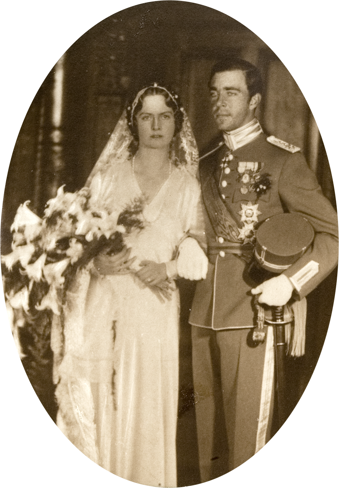 Prince Gustaf Adolf's wedding to Princess Sibylla of Saxe-Coburg and Gotha, 19 to 20 October 1932.